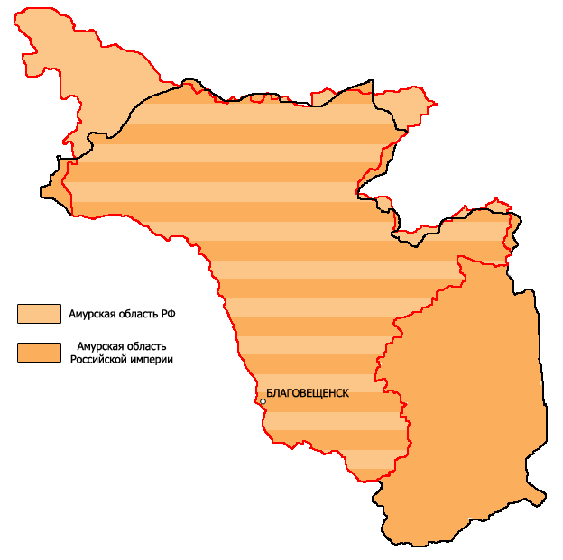 Comparison of the borders Amur Oblast of Russian Empire and present-day Amur Oblast of Russian Federation. The red line shows the borders of the modern Oblast, the black line, those of the Oblast during the imperial period